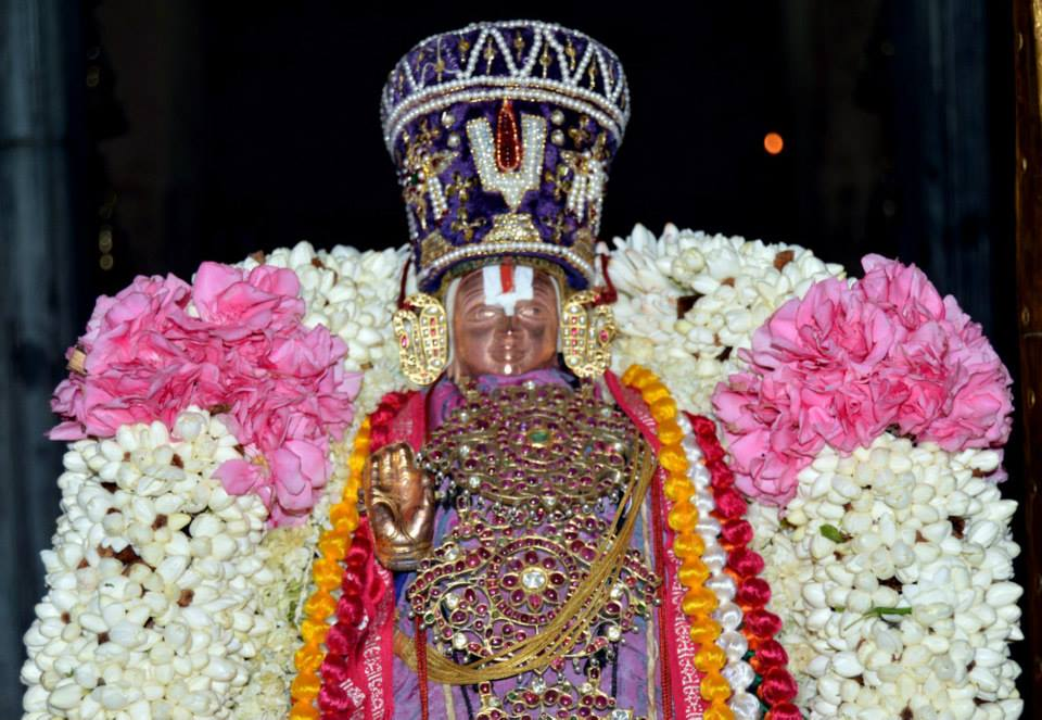 Sri Kanchi Prativadibhayankar Annangaracharya